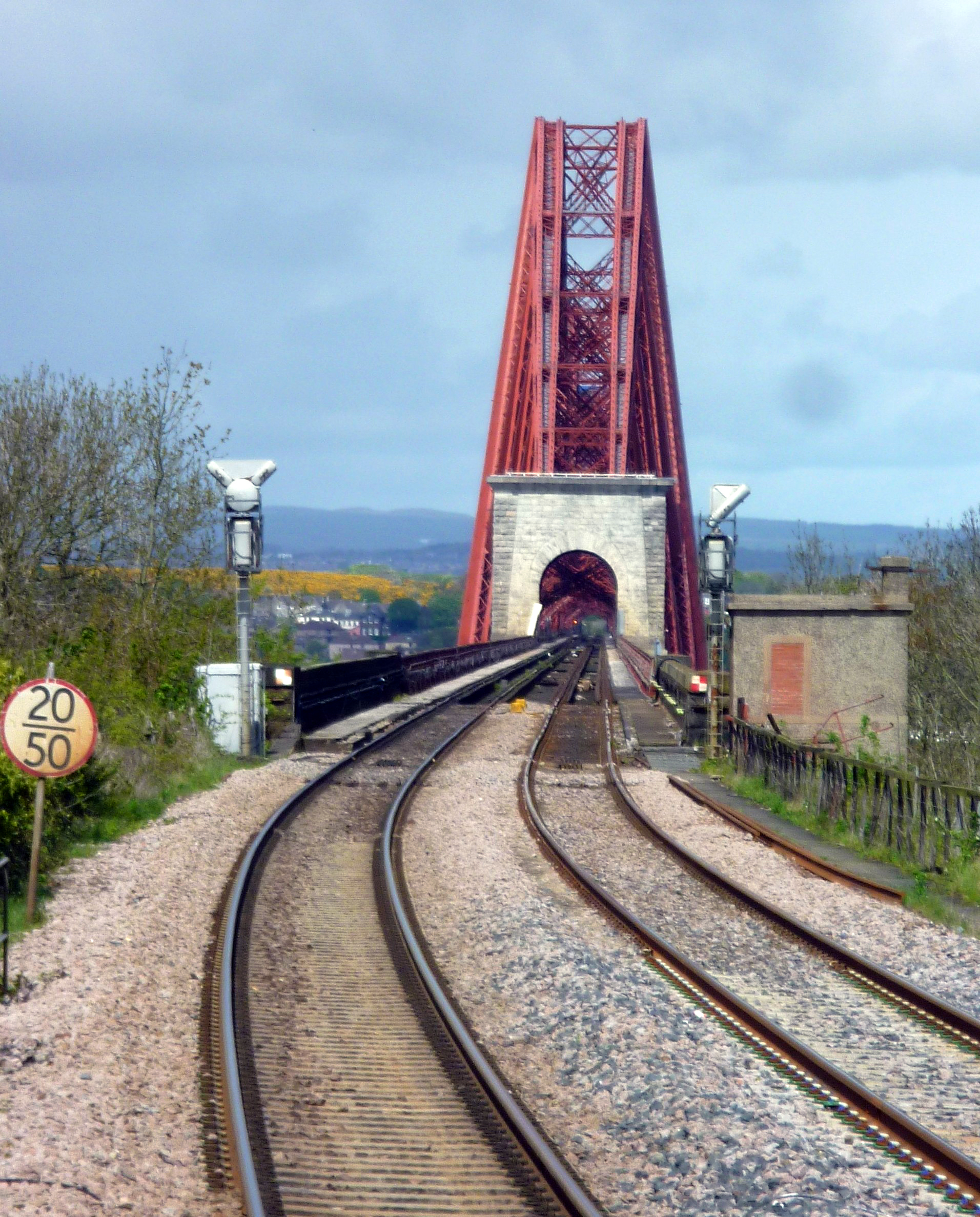 The southern end of the Forth Bridge seen from Dalmeny Station